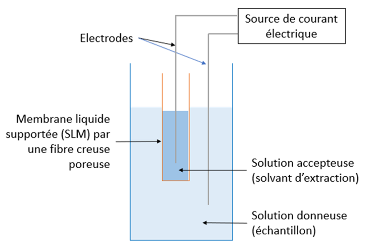 Electromembrane extraction